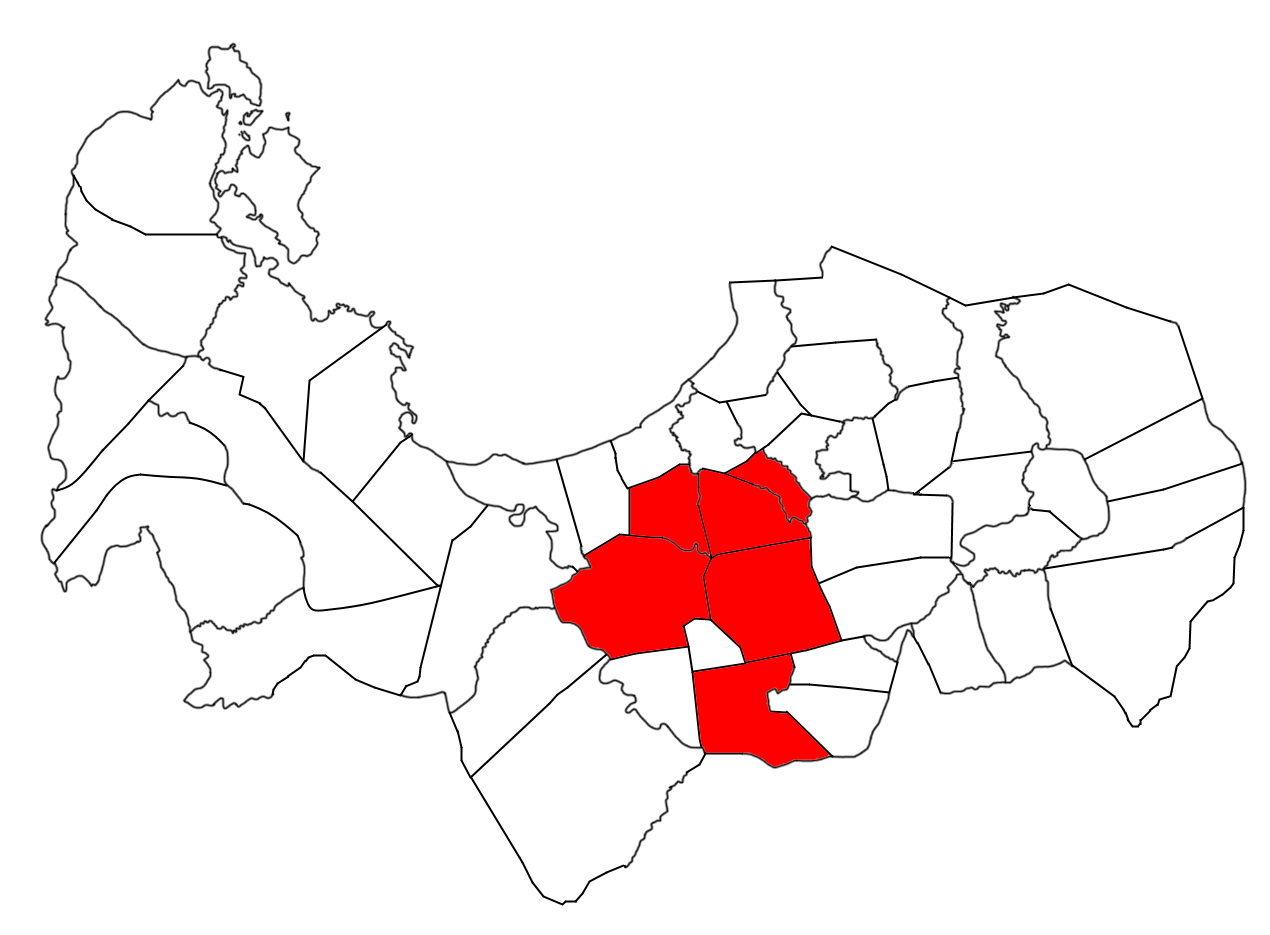 a 3d district map